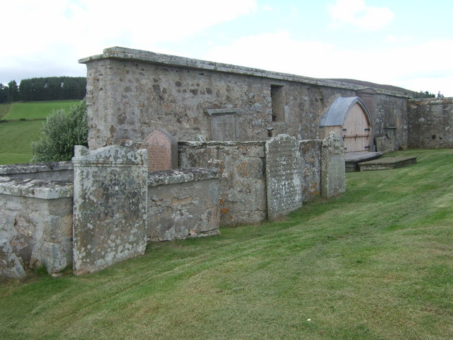 Inside of the north wall of the old St Bride's Church, Kildrummy Supporting a number of old gravestones and memorials.